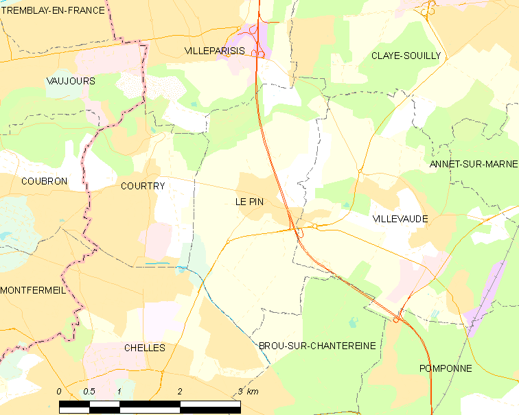 Map of French municipality Le Pin